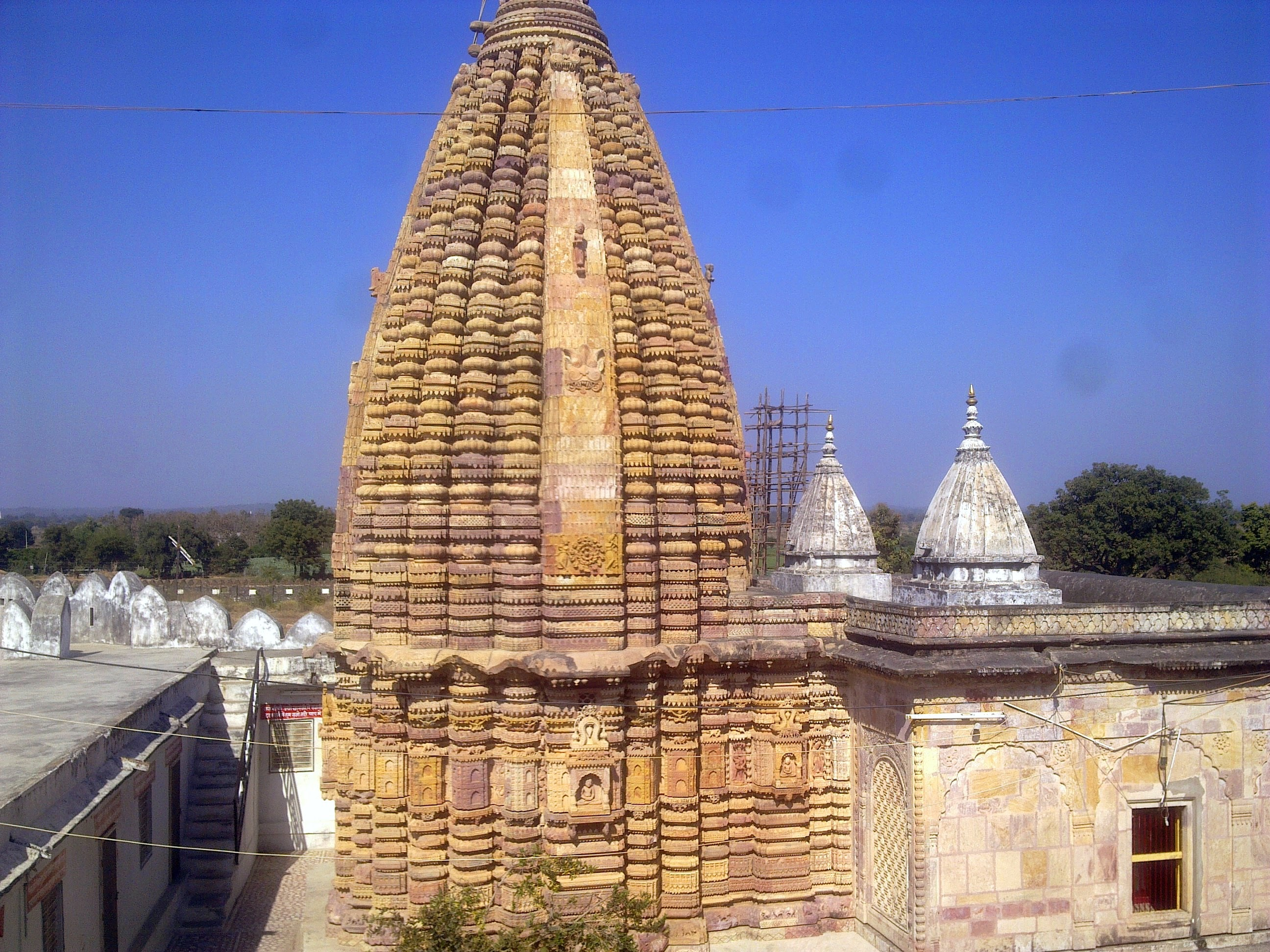 Summit of Shantinath Jain Mandir, Ramtek.